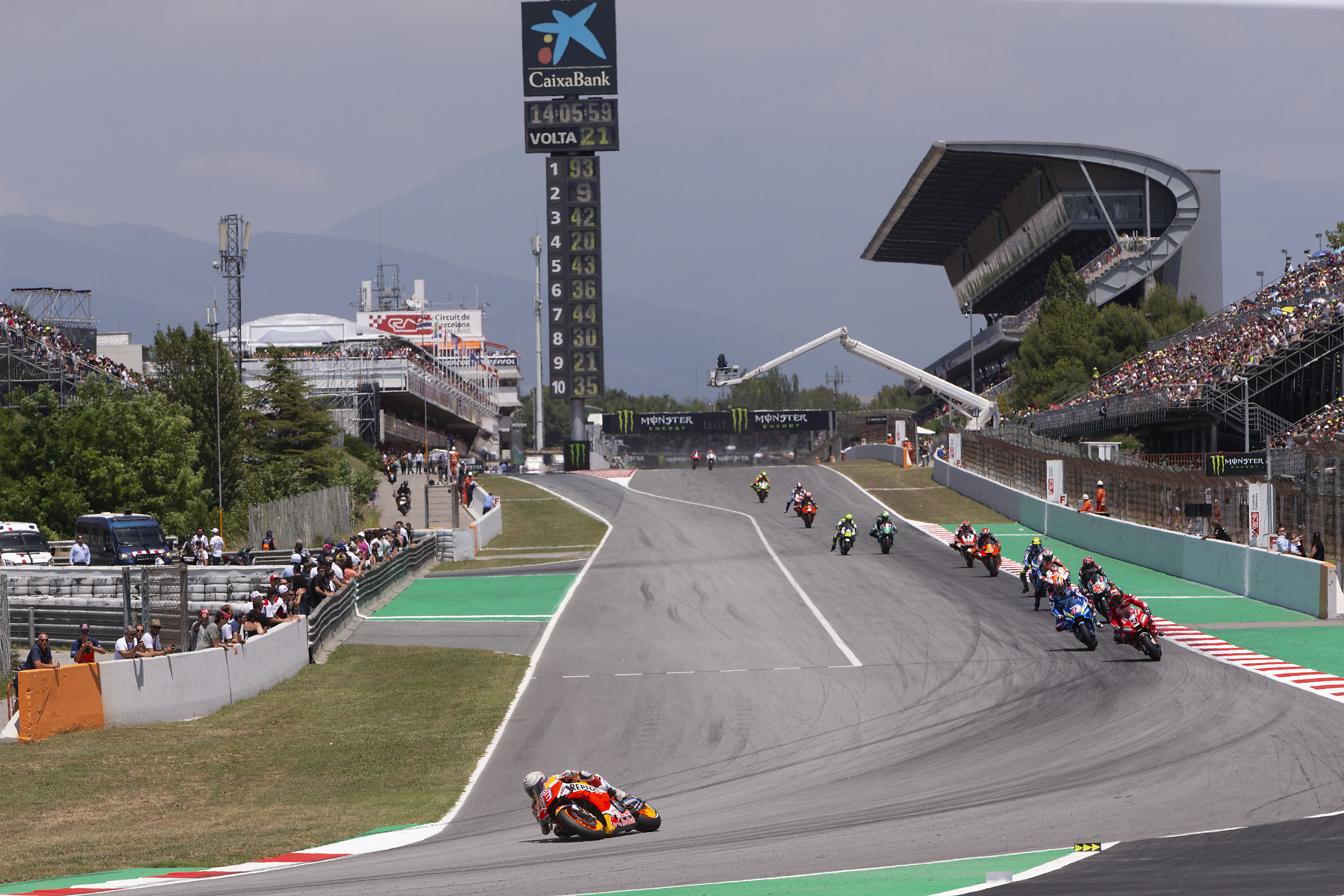 Marc Márquez, riding his Repsol Honda, leading a group of frontrunners at the 2019 Catalan Grand Prix.